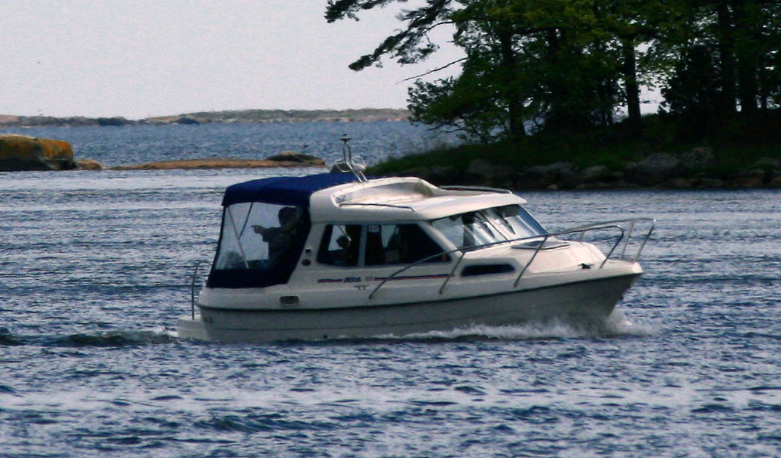 A motor boat